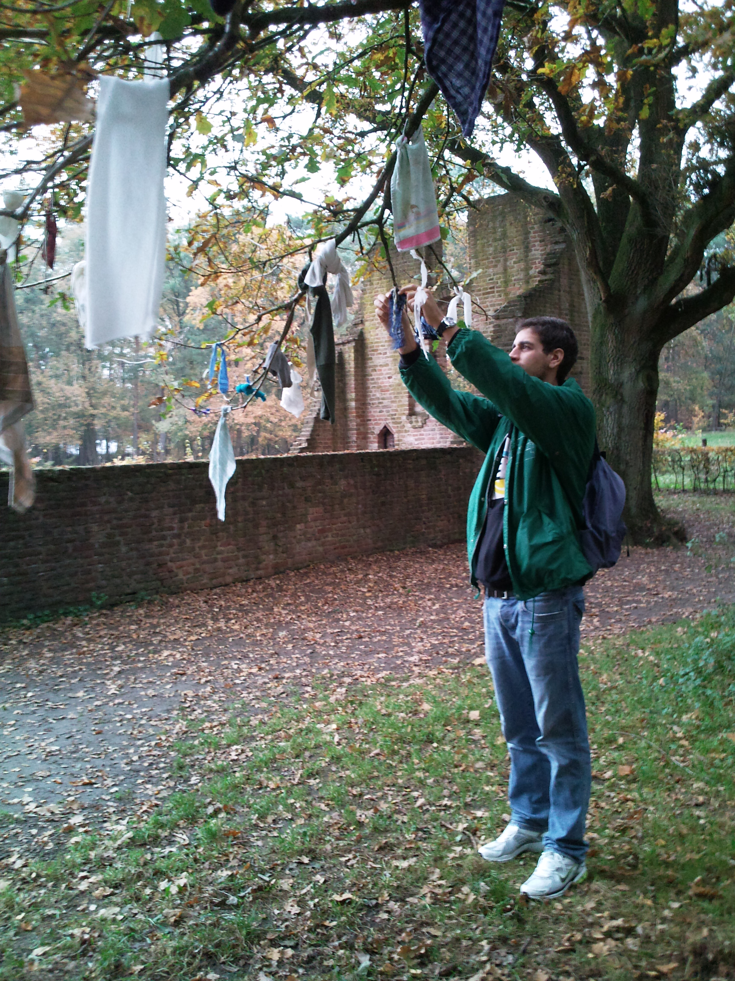 Clootie well tree in Overasselt, the Netherlands, which, according to folk belief, can take fever away by putting a part of clothing in the tree.